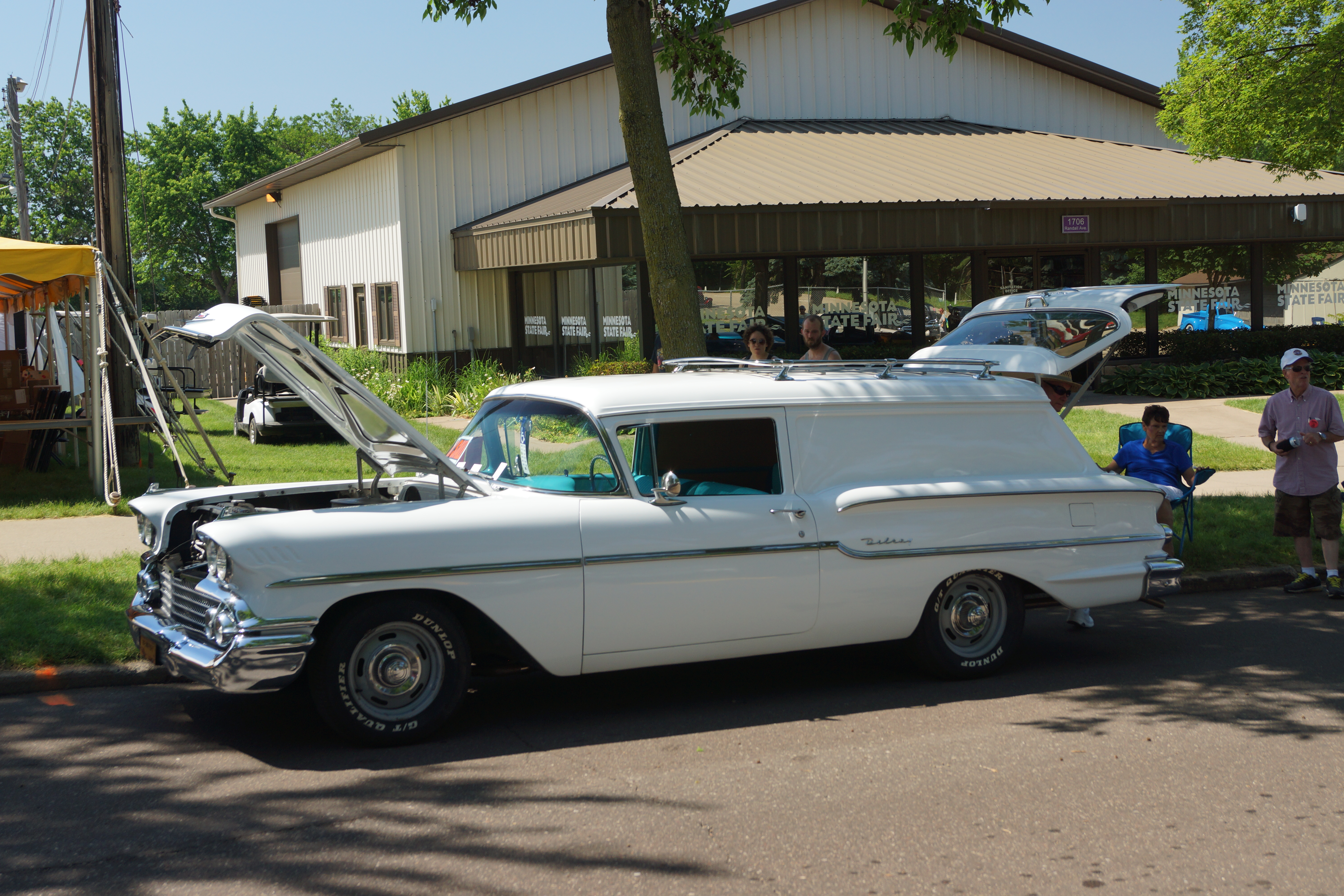 Minnesota Street Rod Association (MSRA) “BACK TO THE 50′s” 43nd Annual Car Show June 17-19, 2016 State Fairgrounds St. Paul, Minnesota Click here for more car pictures at my Flickr site. Also on Tumblr